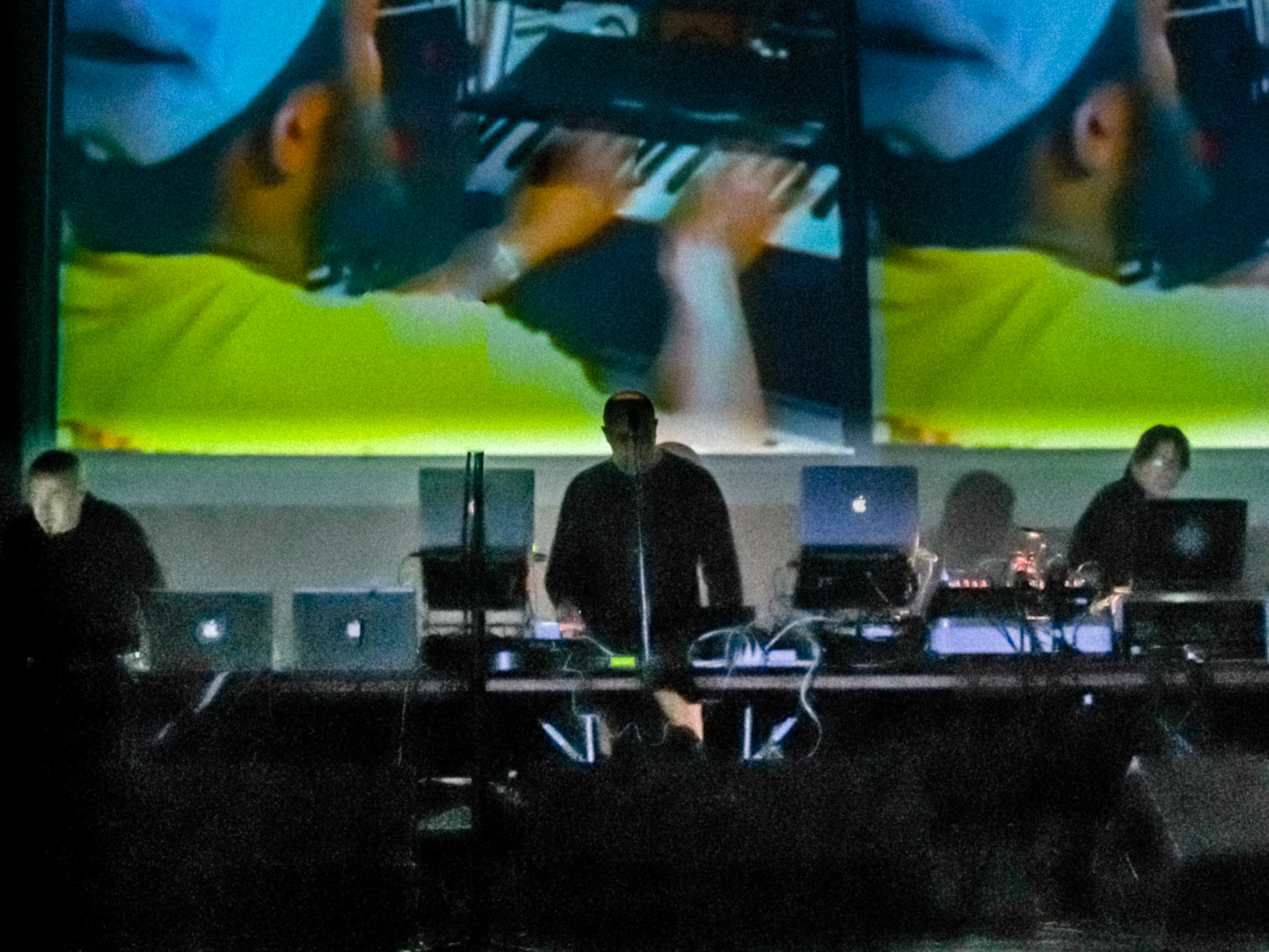 Meat Beat Manifesto live in 2008.